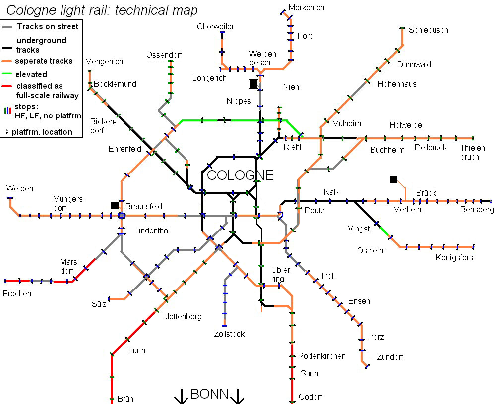 Technical map of the light rail system of Cologne (2017)